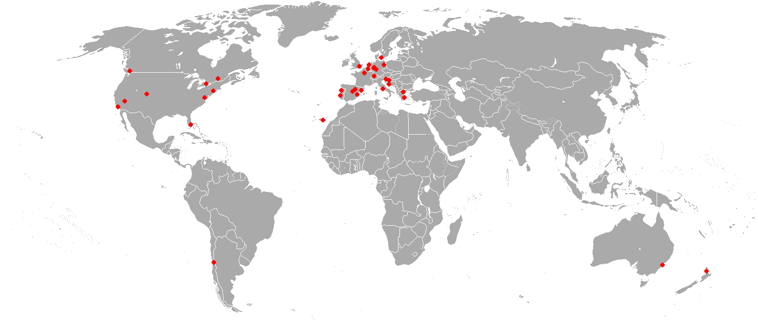 Locations with protests of over 1000 people (as of 17 October 2011)